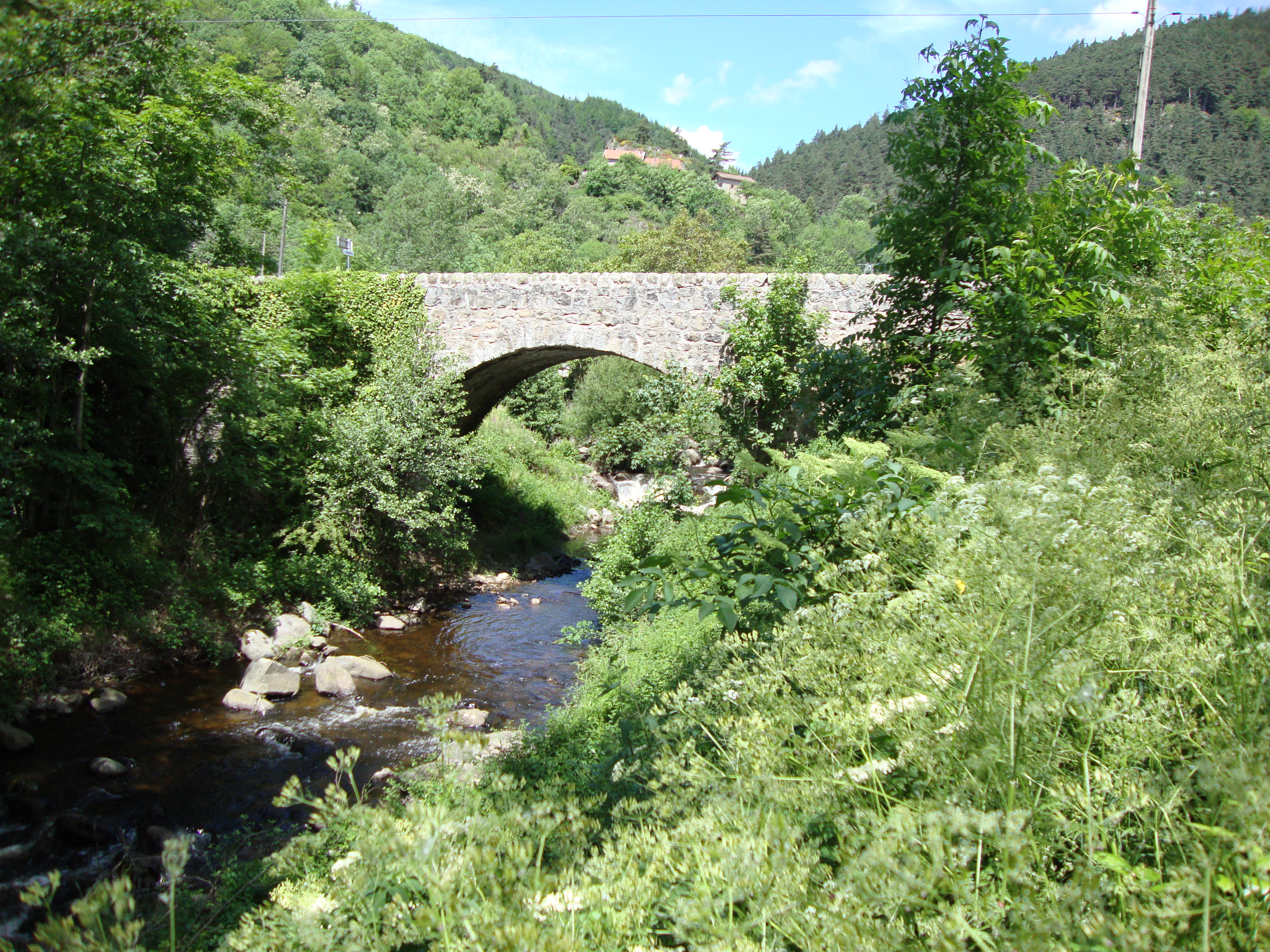 Intres (Ardêche, Fr) bridge over the Eyrieux.